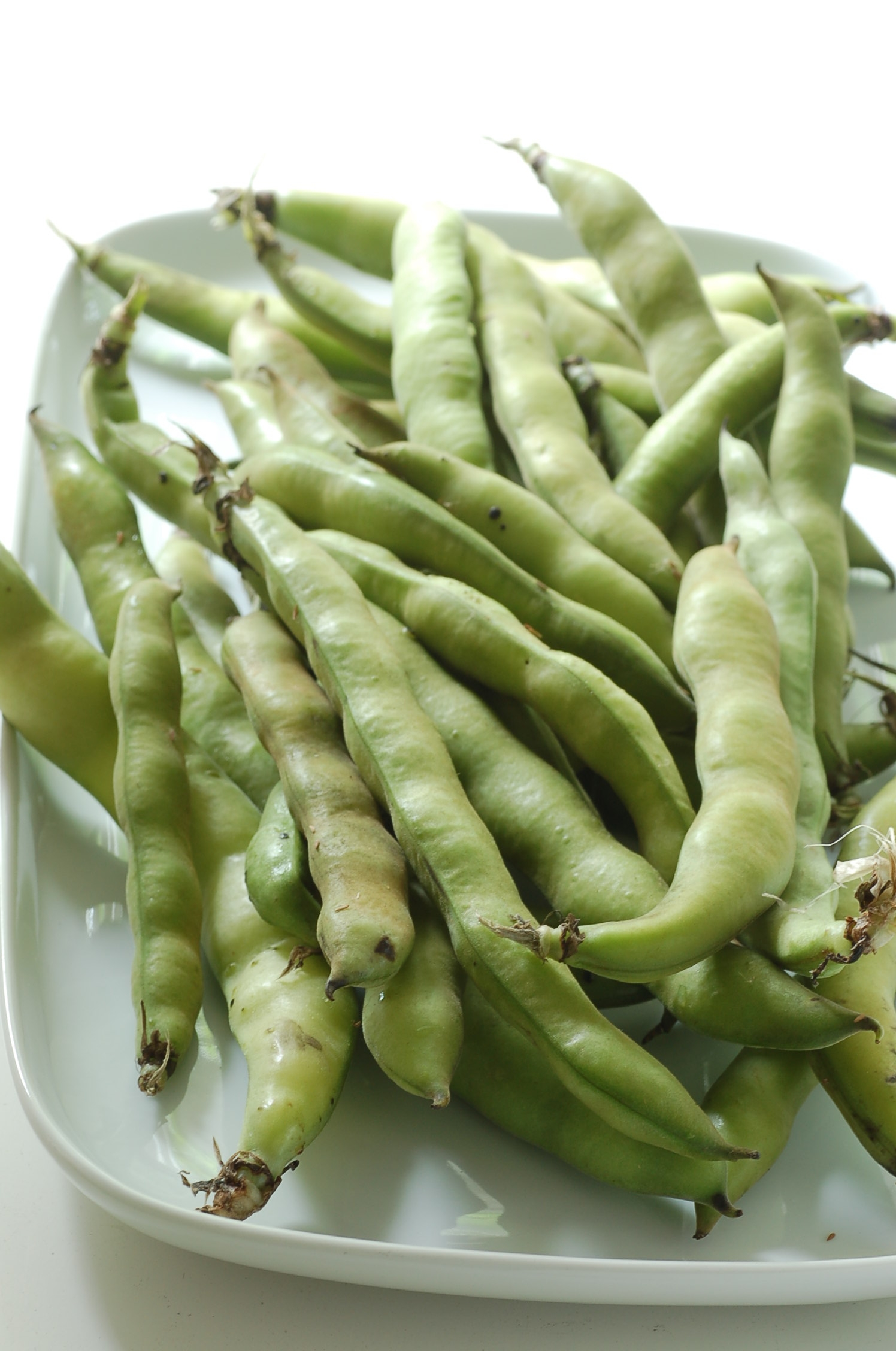 broad beans fullly clothed.